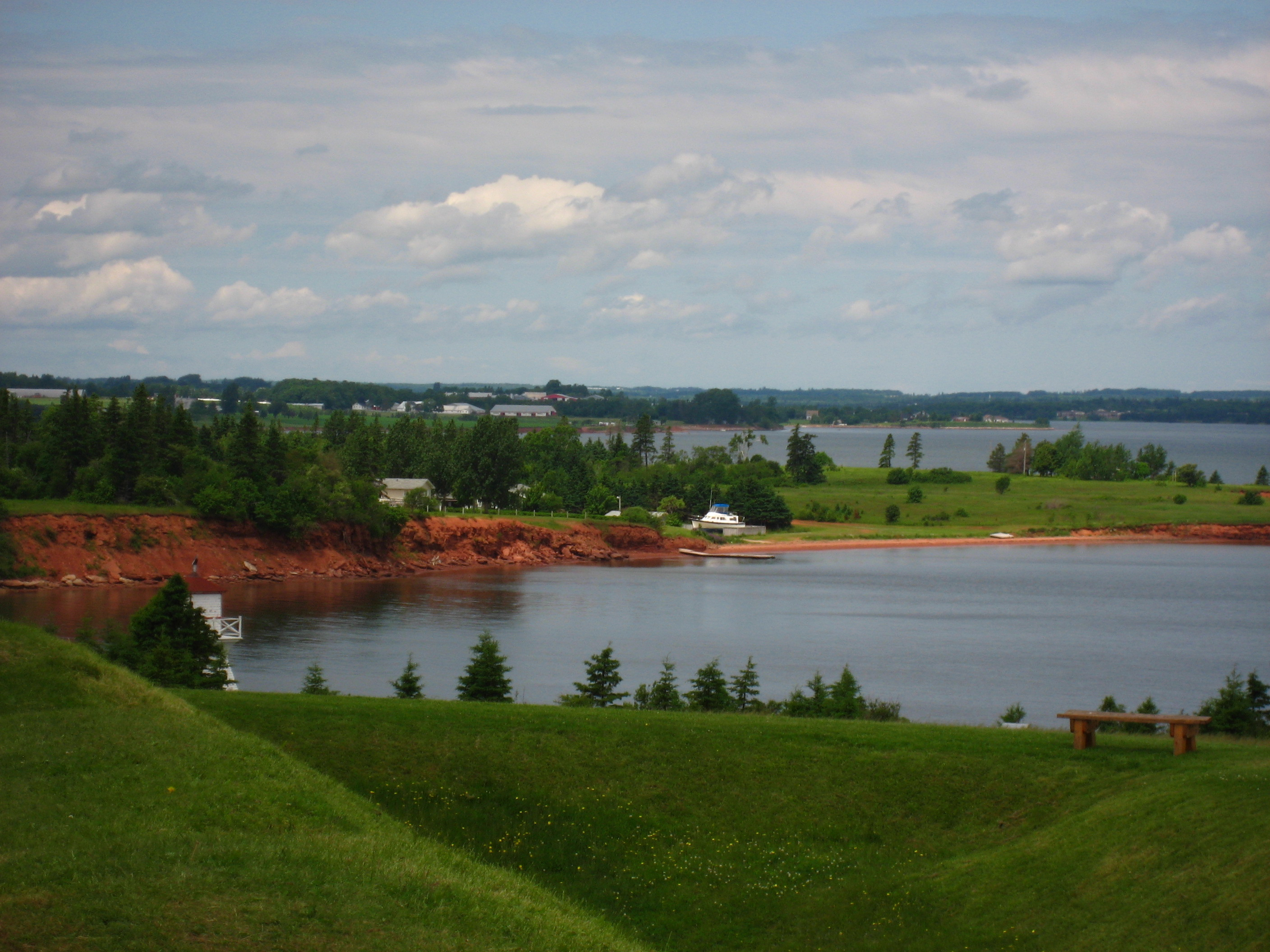 Port-la-Joye–Fort Amherst - I took this picture on June 30, 2007 at Fort Amherst in Prince Edward Island, Canada.